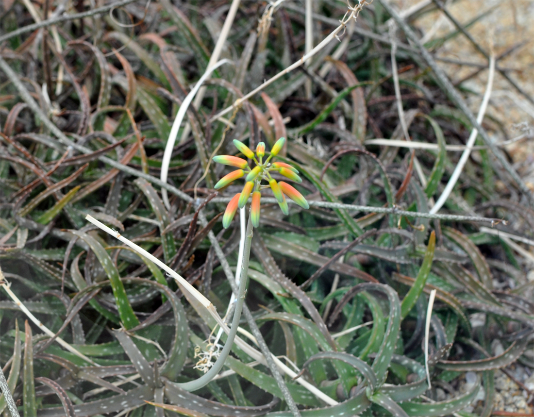 Aloe millotii Conservatoire botanique national de Brest Native nameConservatoire botanique national de BrestLocationBrest, FranceCoordinates48° 24′ 10.35″ N, 4° 26′ 53.58″ W Established1975: established, 1978: opened to publicWeb page control : Q2994486 ISNI: 0000 0000 9261 8684 LCCN: no95047958 WorldCat institution QS:P195,Q2994486